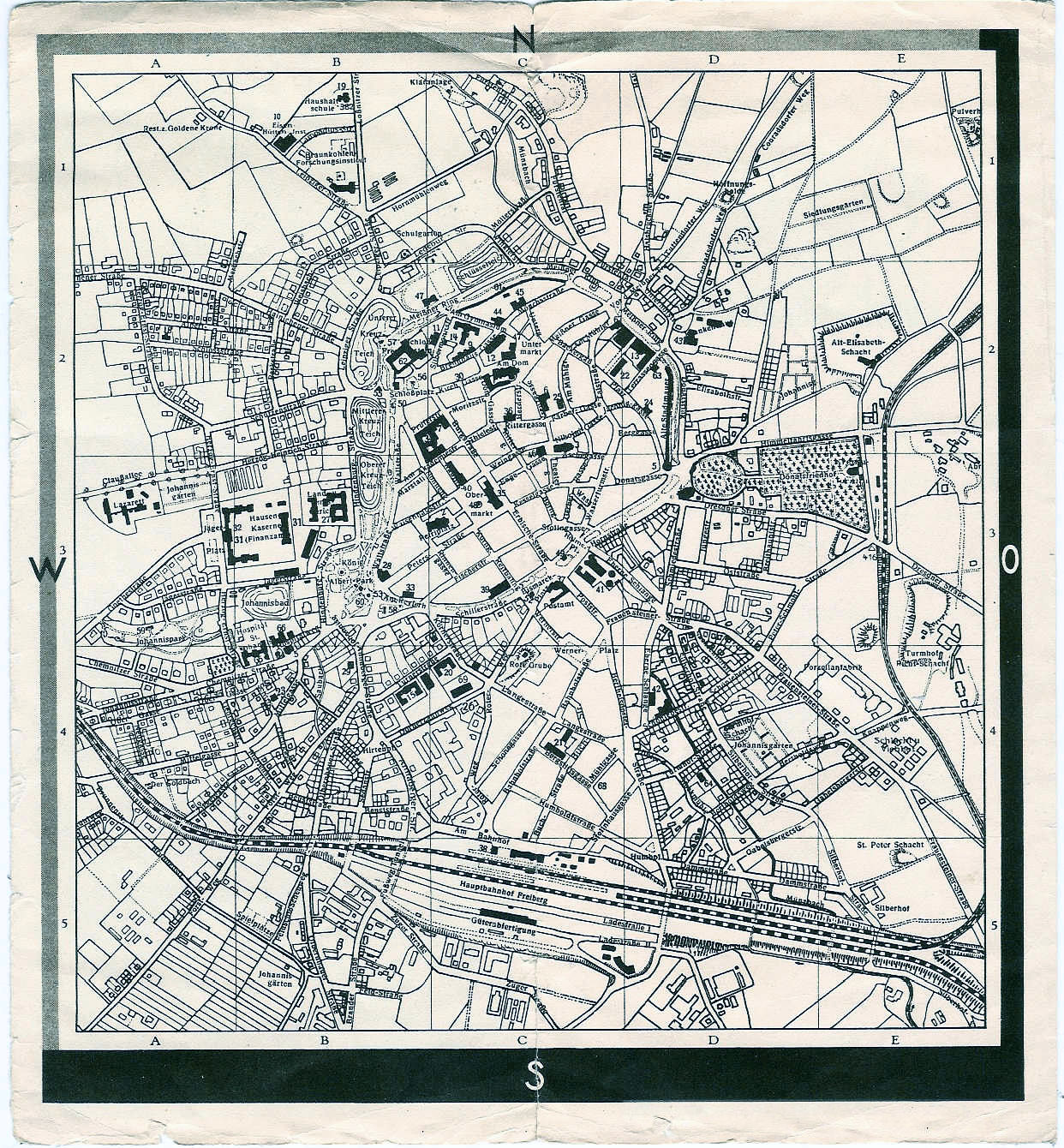 Map of the inner city of Freiberg from 1932, Saxony, Germany